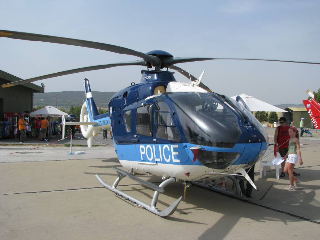 A Hellenic Police EC-135 displayed at the 2008 HAF air show, in Tanagra airbase, Greece